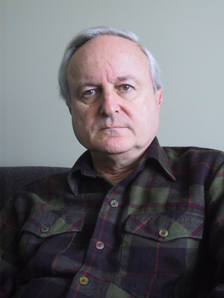 Bulgarian writer and translator Alexander Shurbanov